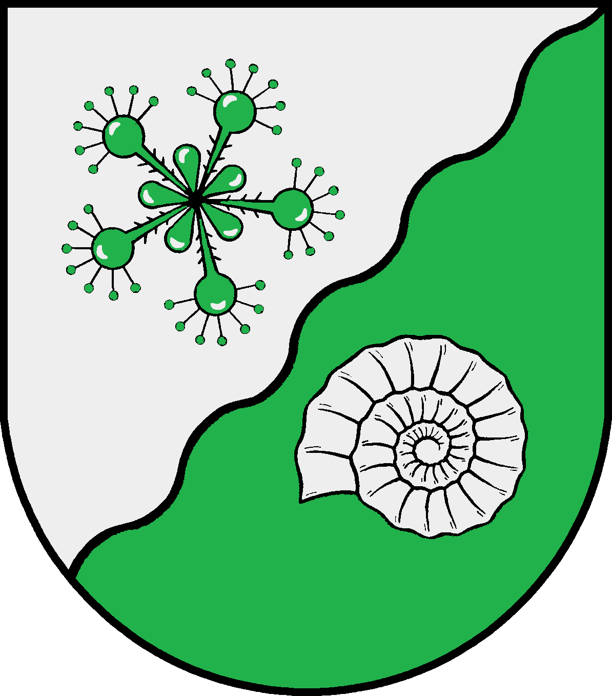 Coat of arms of the municipality Tensfeld in Schleswig-Holstein, Germany.